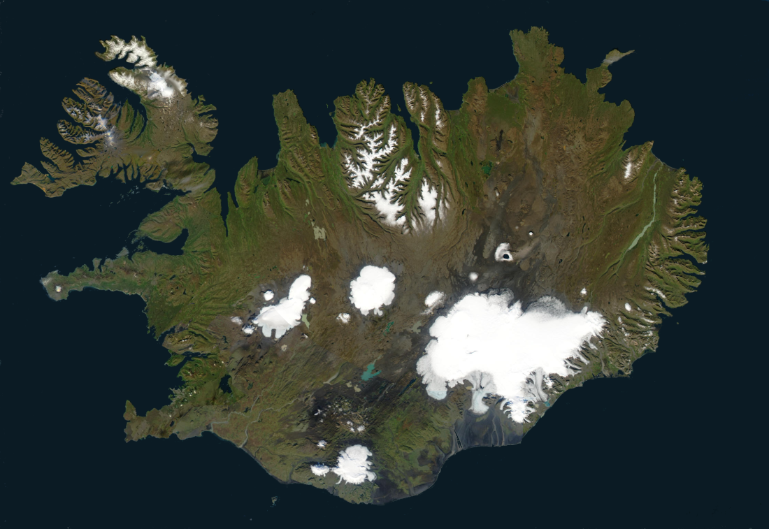 This image created by superimposing several satellite images using The Gimp and hand-editing the result using paintbucket, brush and smudge to make the ocean monochrome and remove most clouds.